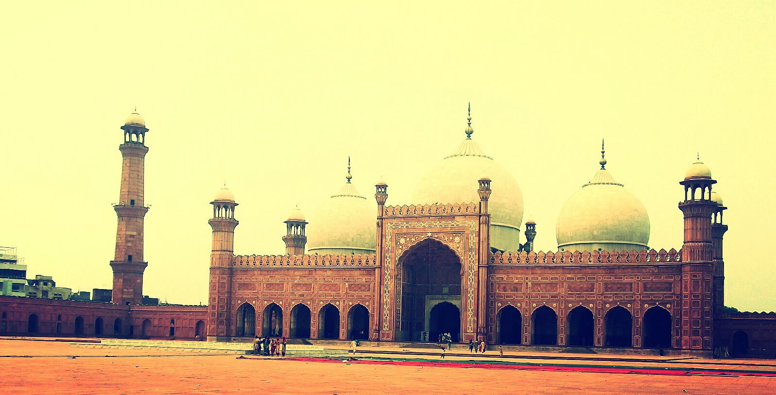 Front of Badshahi Mosque, Lahore